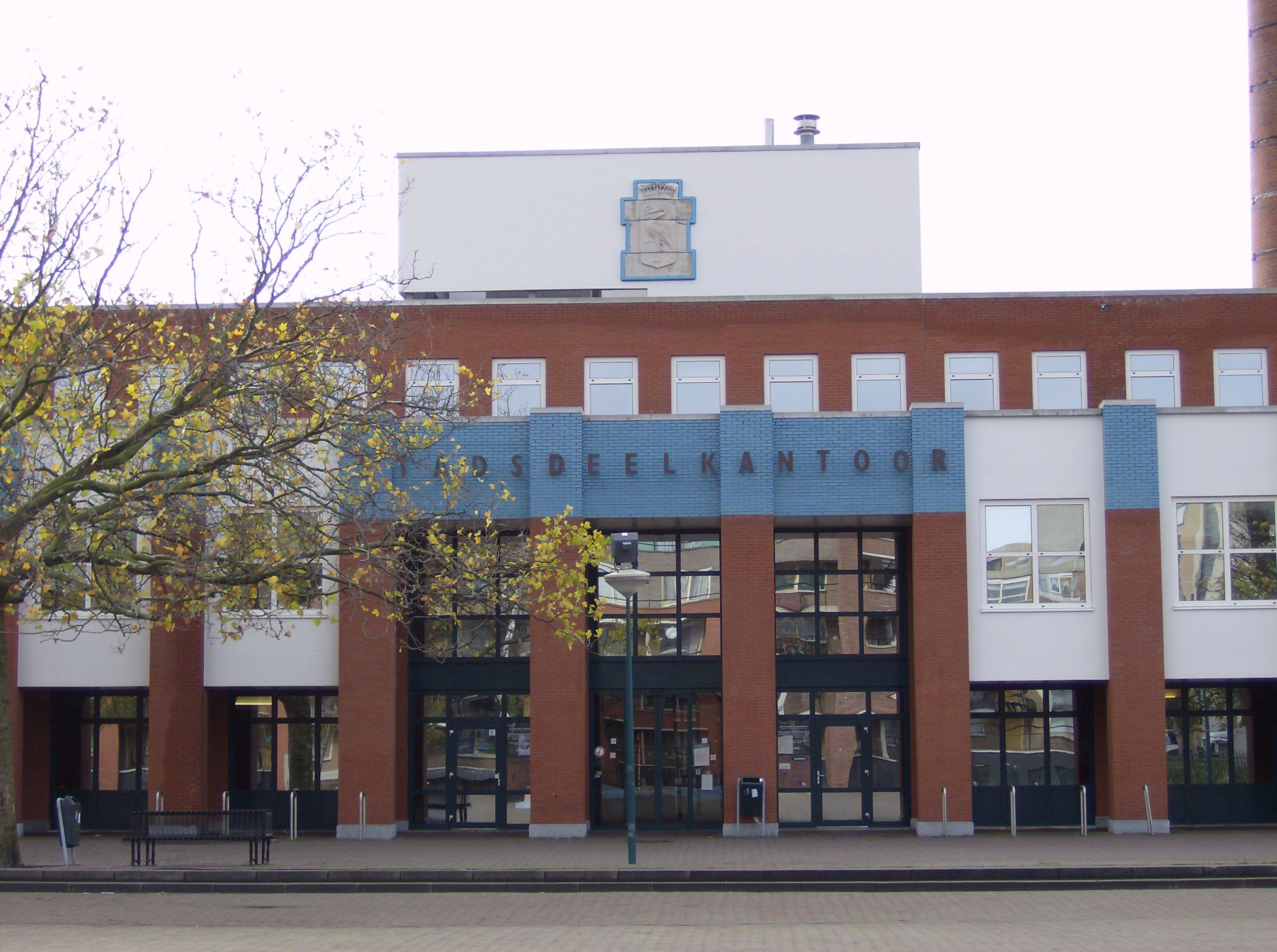 City's part office - The Hague, Laak